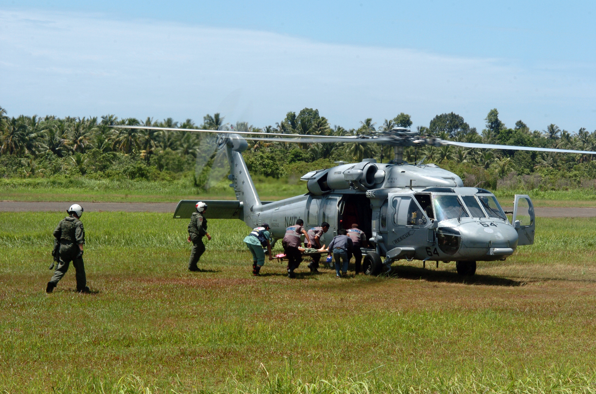 Nias, Indonesia (Apr. 6, 2005) - An Indonesian patient is carried to an MH-60S Seahawk helicopter, assigned to Helicopter Combat Support Squadron Five (HC-5), to be medically evacuated from Nias Airport, Indonesia to the Military Sealift Command (MSC) hospital ship USNS Mercy (T-AH 19). At the request of the government of Indonesia, the Military Sealift Command (MSC) hospital ship USNS Mercy (T-AH 19) and the MSC combat stores ship USNS Niagara Falls (T-AFS 3) are on station off the coast of Nias, providing assistance as determined appropriate and necessary with earthquake disaster relief efforts and provide medical assistance to those in need. U.S. Navy photo by Photographer's Mate 3rd Class Rebecca J. Moat (RELEASED)